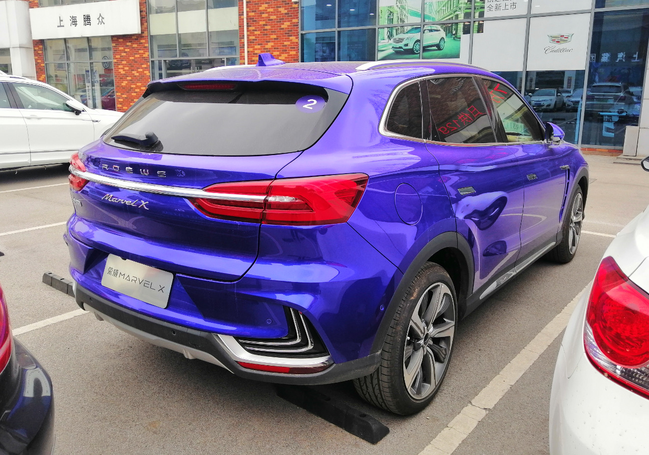 Roewe Marvel X photographed in Shanghai, China.